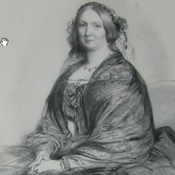 Harriet Mary Montegu 1804 to 1857 detail from print by